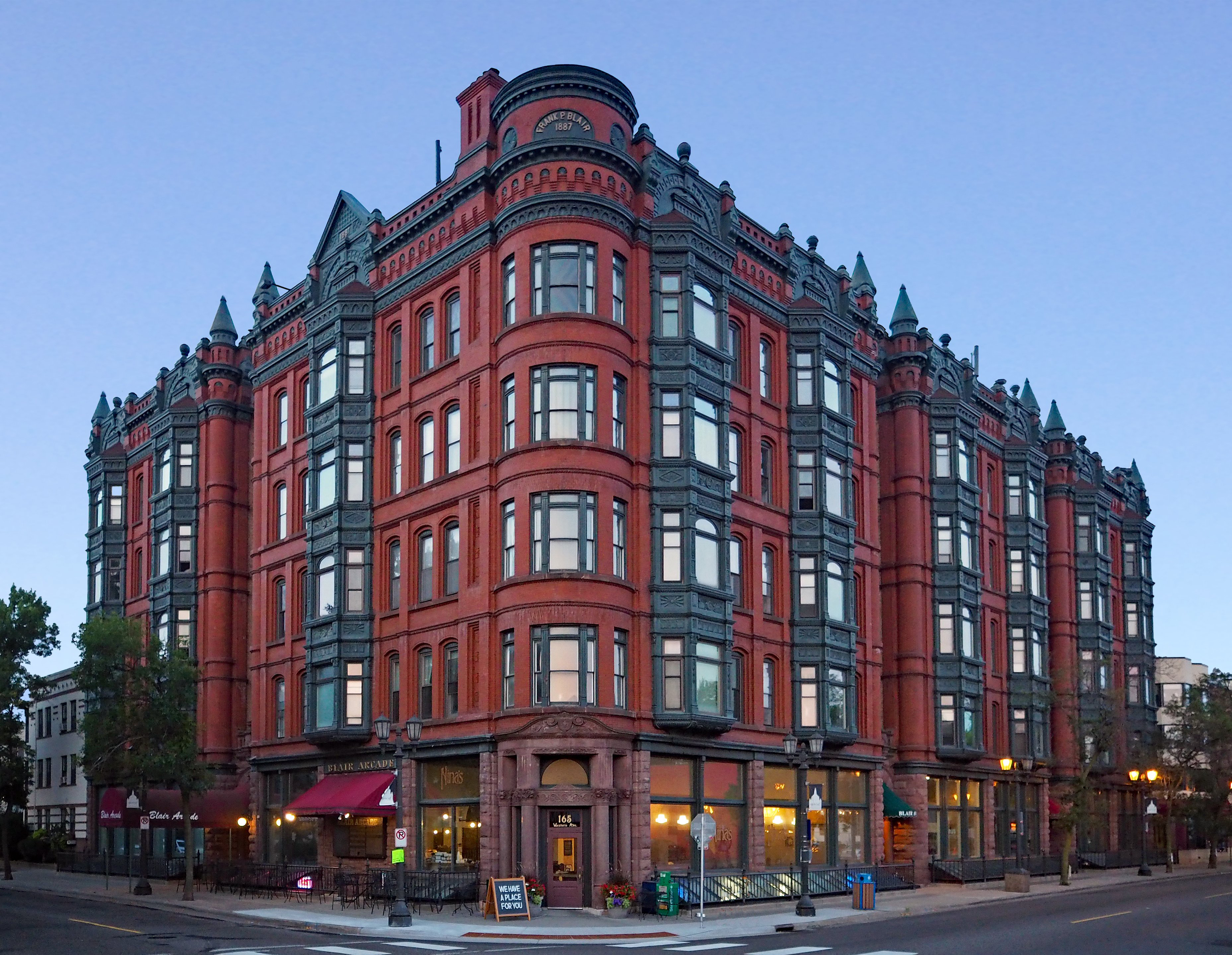 Blair Flats, 165 Western Ave, Saint Paul, Minnesota, USA. Viewed from the northeast at blue hour just before sunrise.